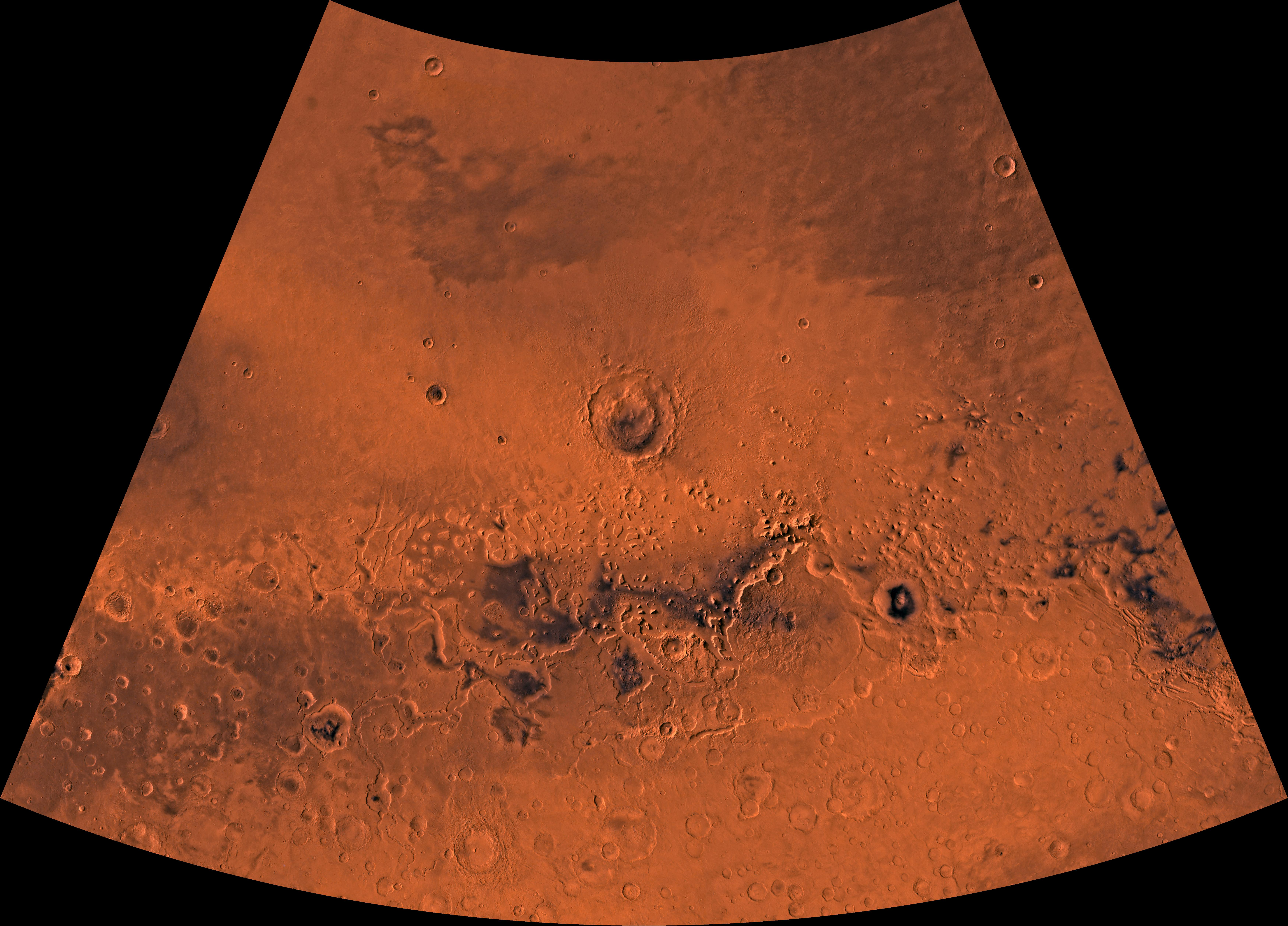 PIA00165: MC-5 Ismenius Lacus Region Mars digital-image mosaic merged with color of the MC-5 quadrangle, Ismenius Lacus region of Mars. Heavily cratered highlands of the southern part are separated from the relatively smooth plains of the northern part by a belt of dissected terrain, containing mesas and buttes. Latitude range 30 to 65 degrees, longitude range -60 to 0 degrees.